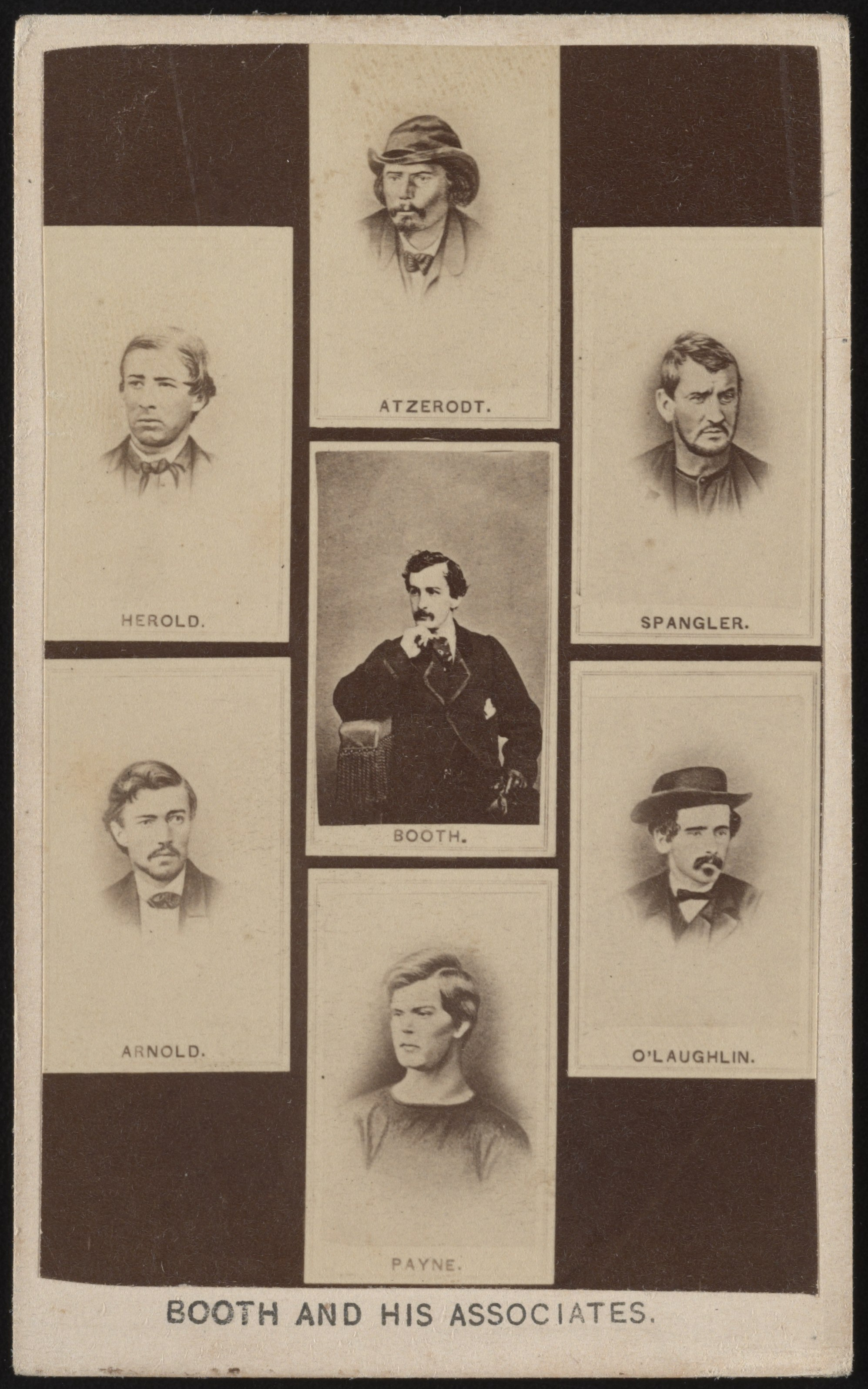 Title: Booth and his associates Abstract/medium: 1 photograph : albumen print on card mount ; mount 10 x 6 cm (carte de visite format)